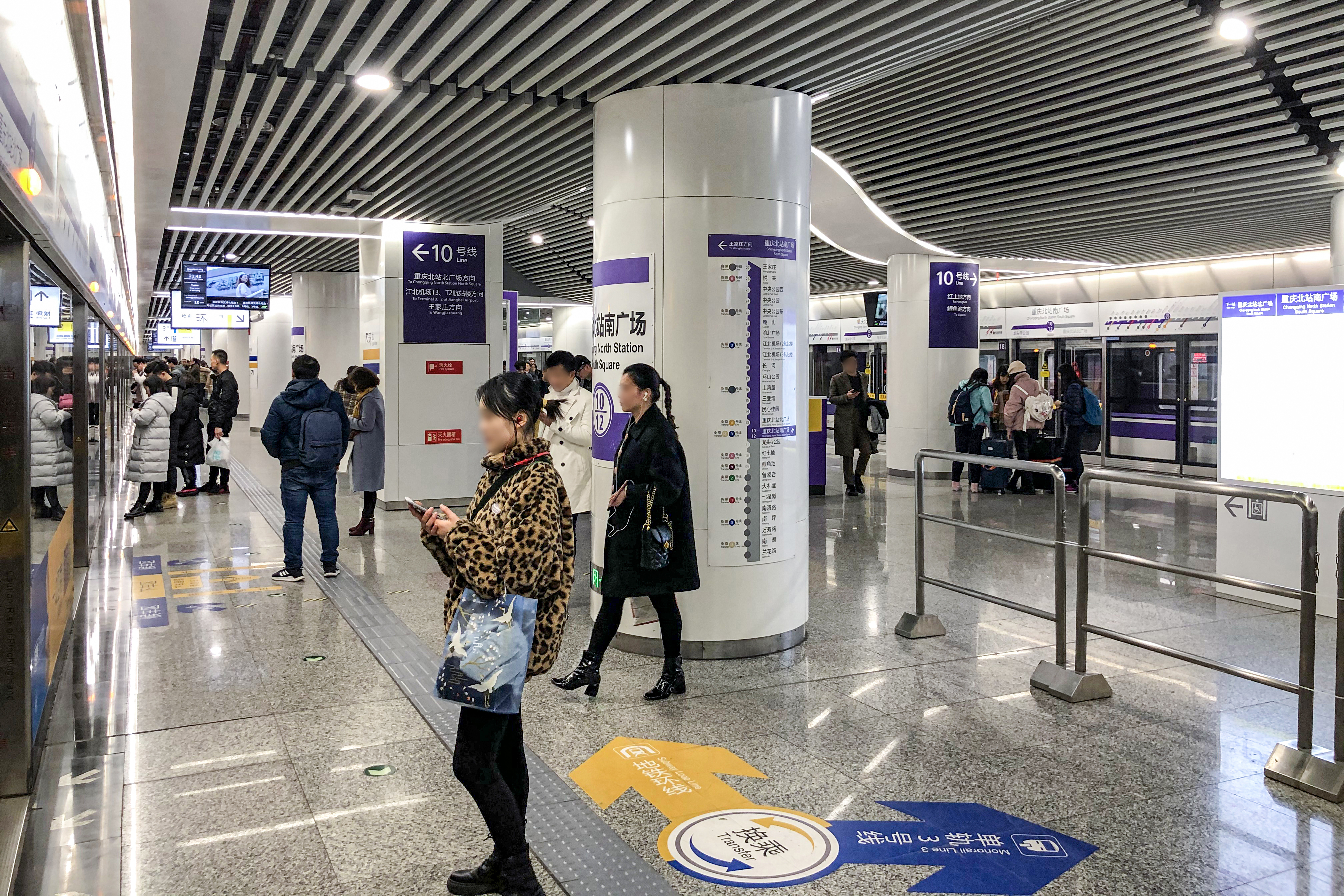 Confirmed "Chongqing North Station South Square".